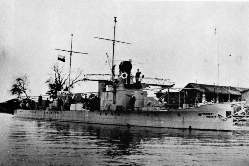 President Masaryk patrol boat was the largest ship of the Czechoslovak river fleet in 1930s.